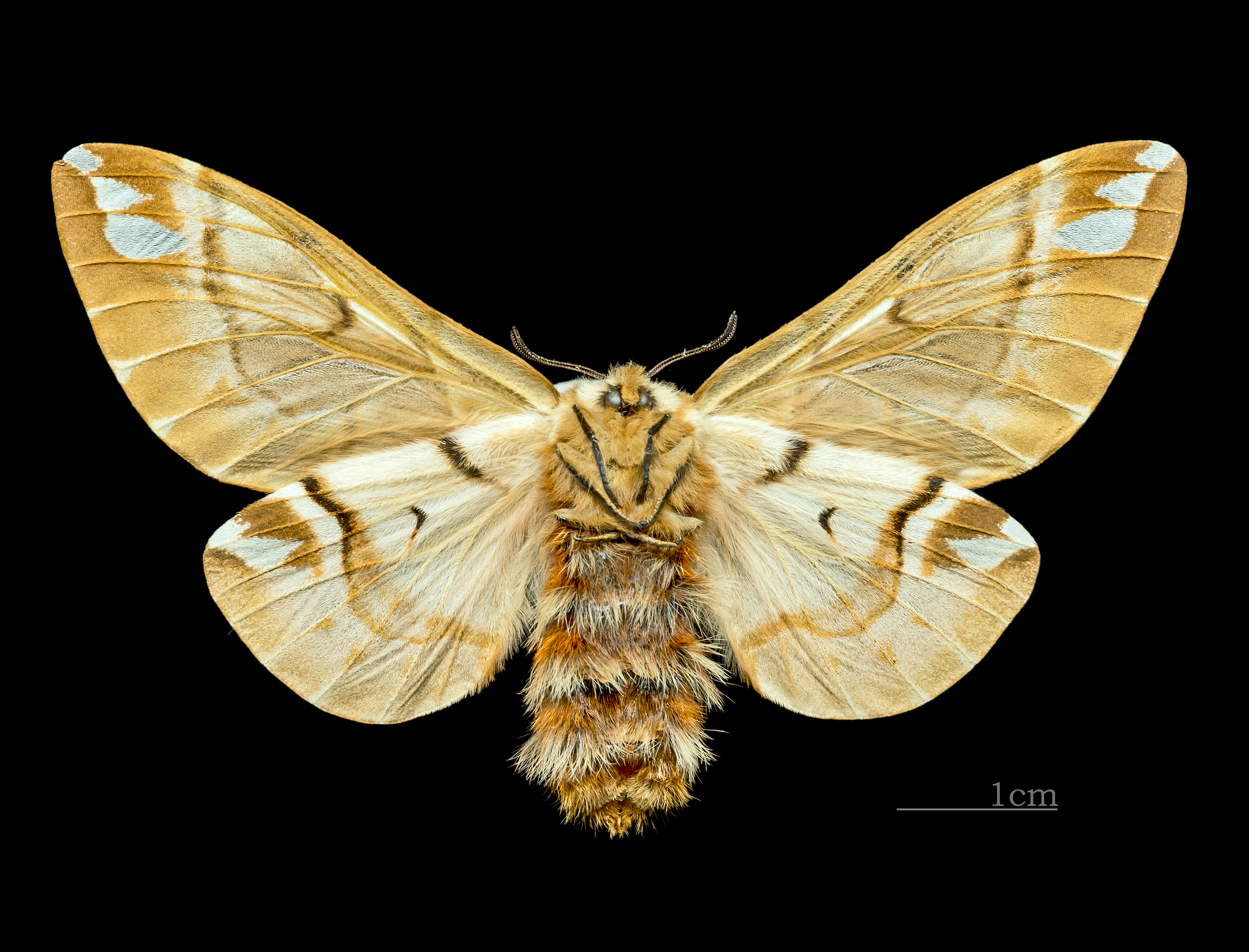 Kentish Glory. △ Ventral side